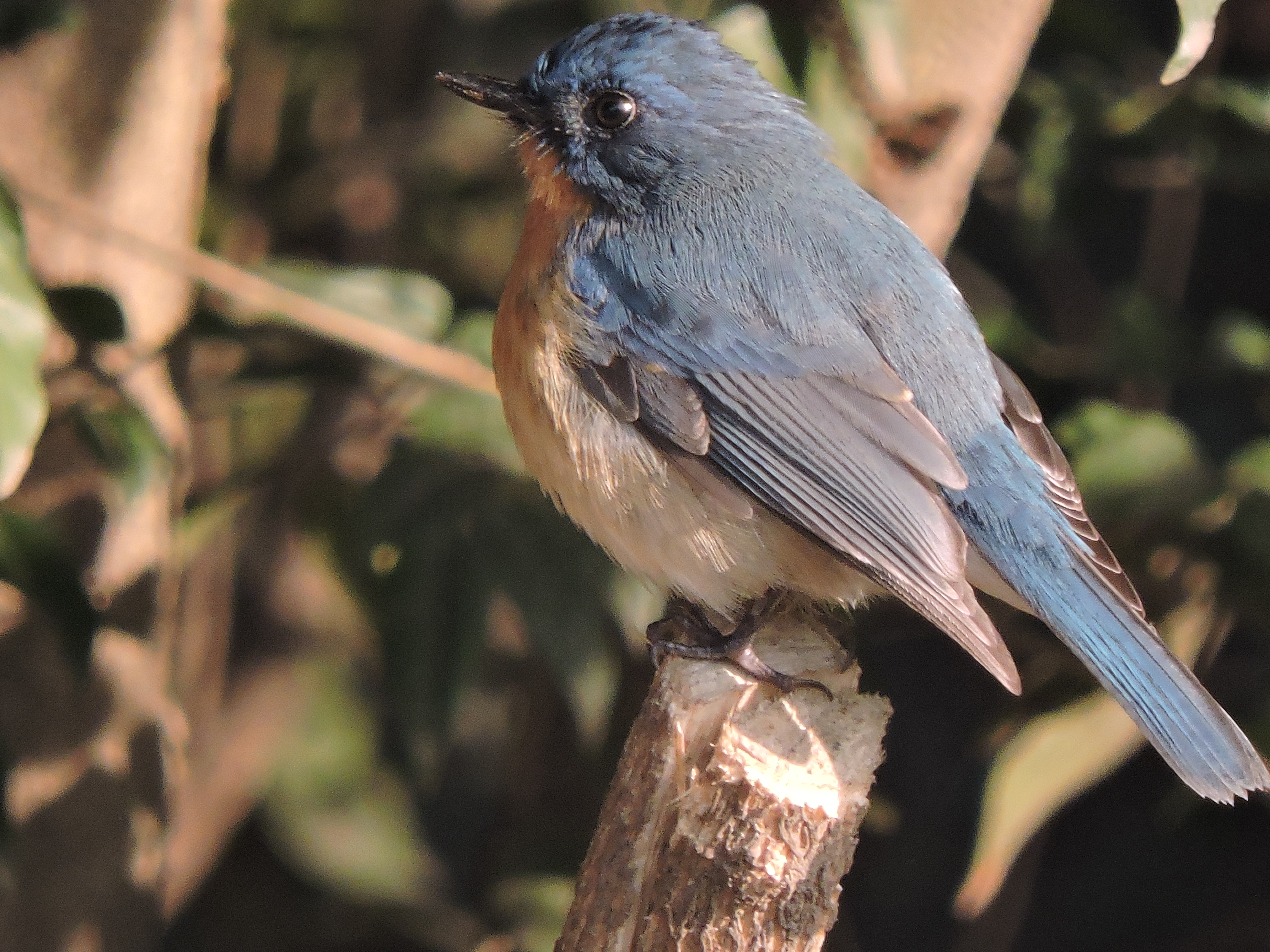 Tickell's blue flycatcher, Mohali, Punjab, India